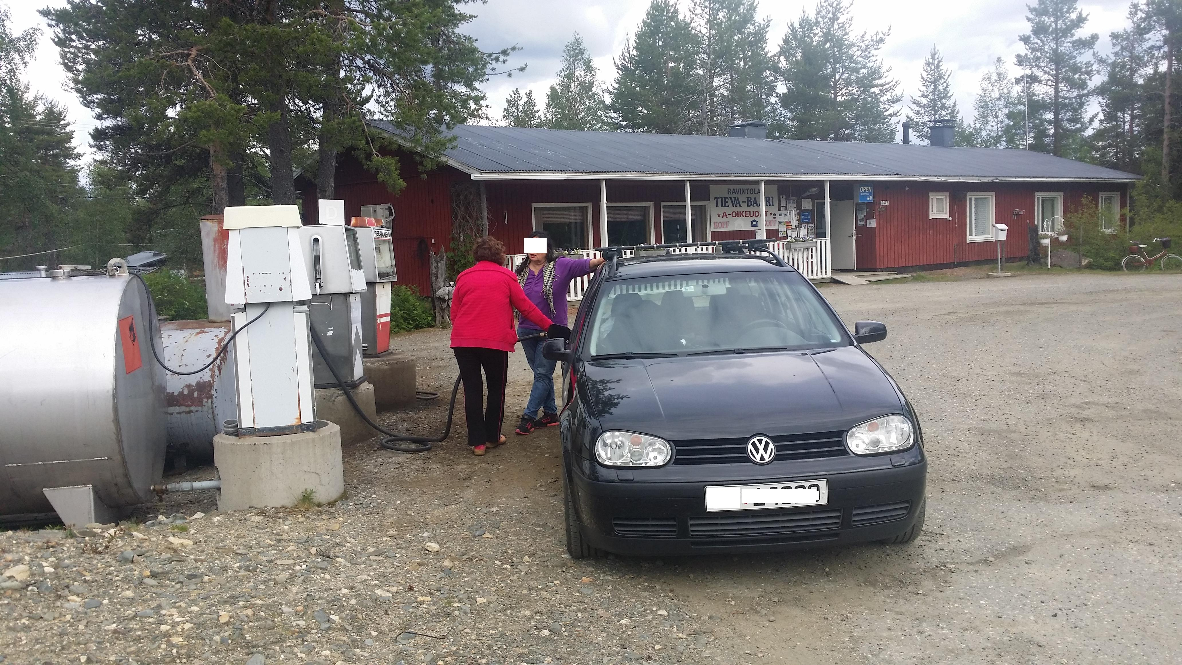 Small road-restaurant and gas-station in Pokka, Finland.